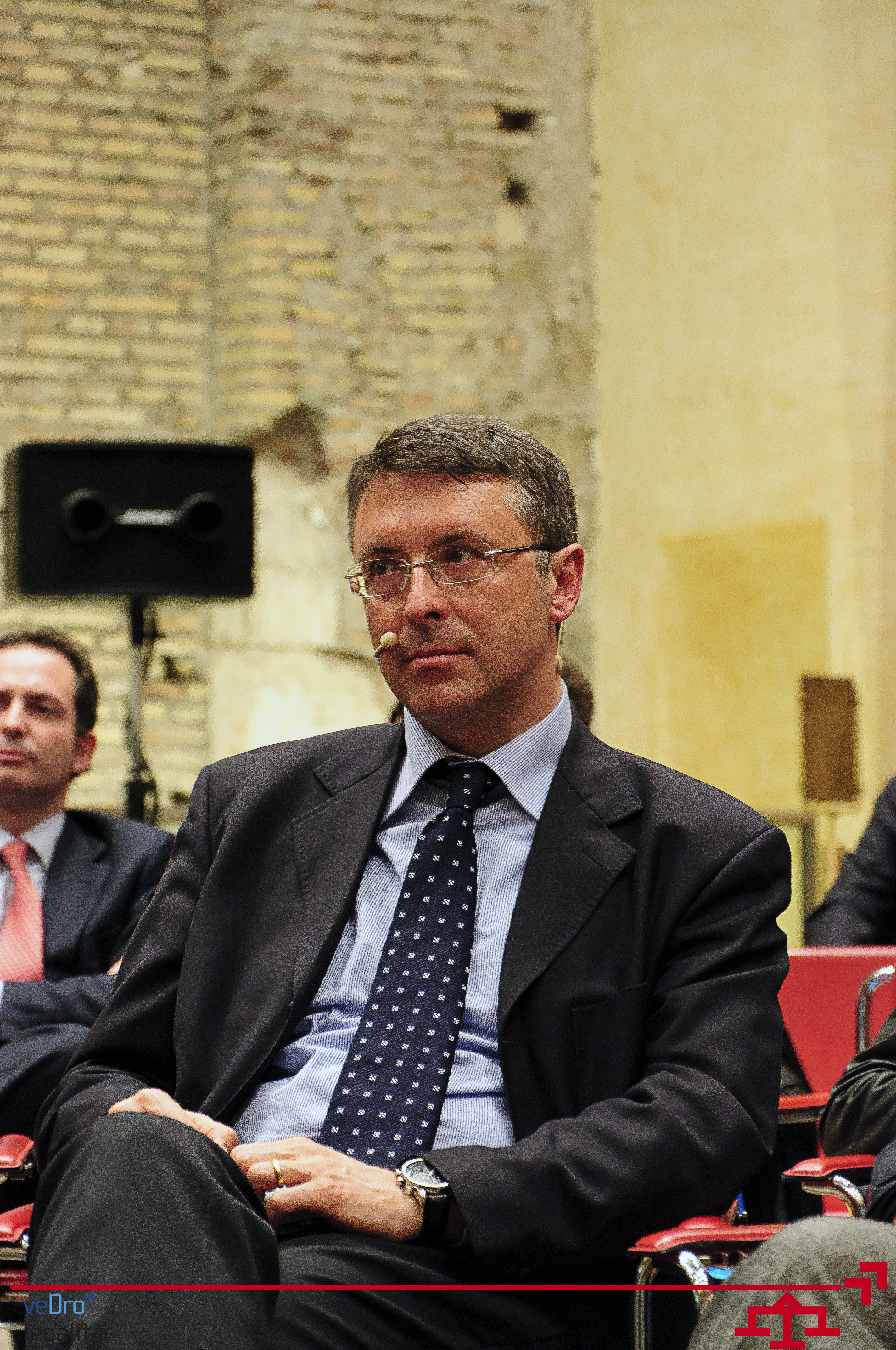 Raffaele Cantone